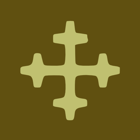 A "cross crosslet", used as a symbol of faith by Dievturis, adherents of Dievturity (Latvian Neopaganism).